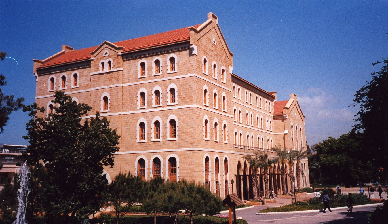 The reconstructed College Hall at AUB. College Hall at AUB.